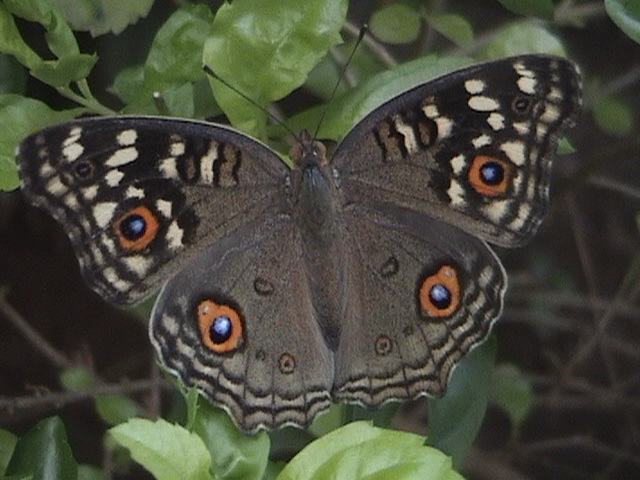 Lemon pansy upperside. wet season form